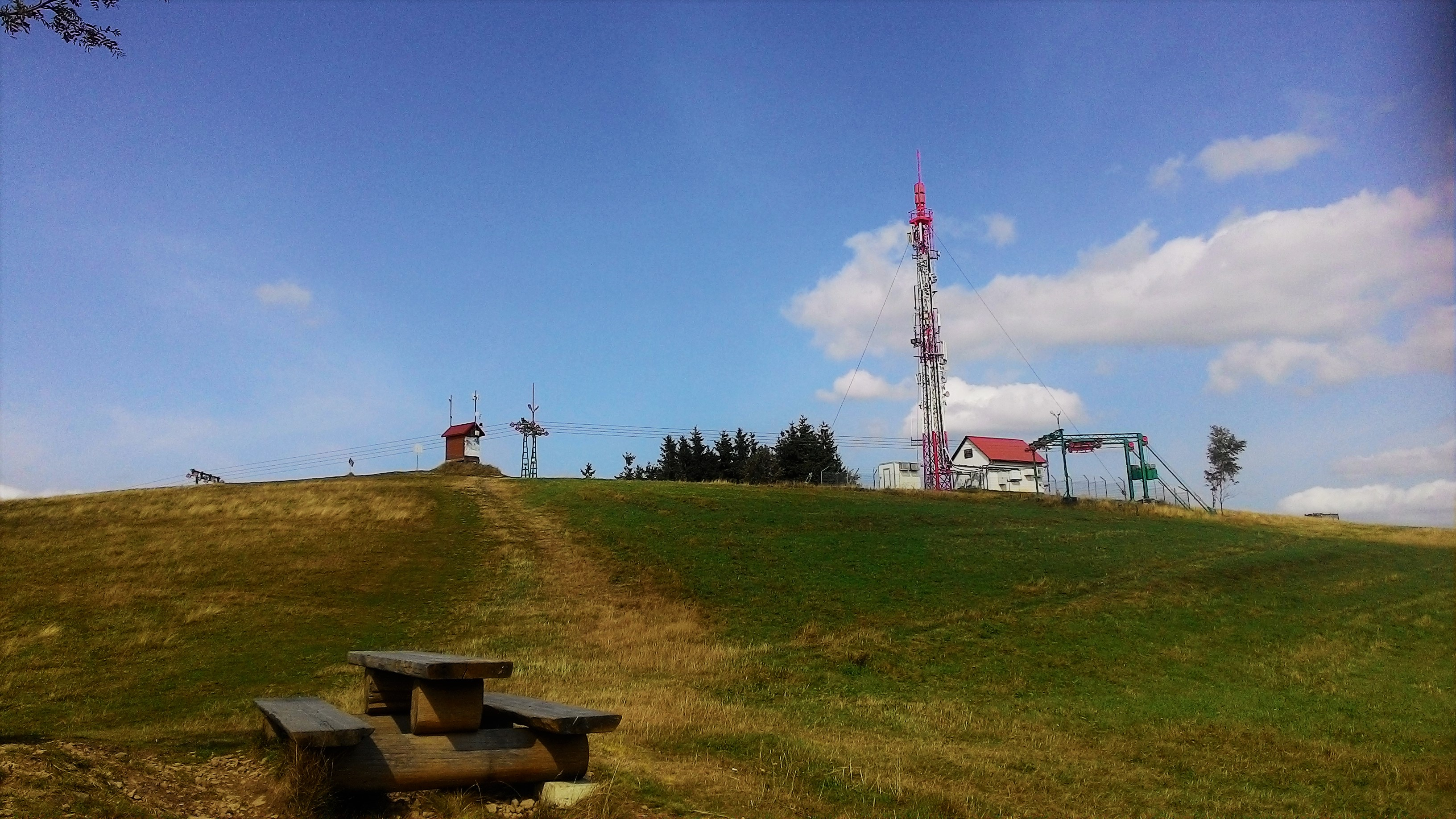 On the Ochodzita Mount in Koniaków, Poland.